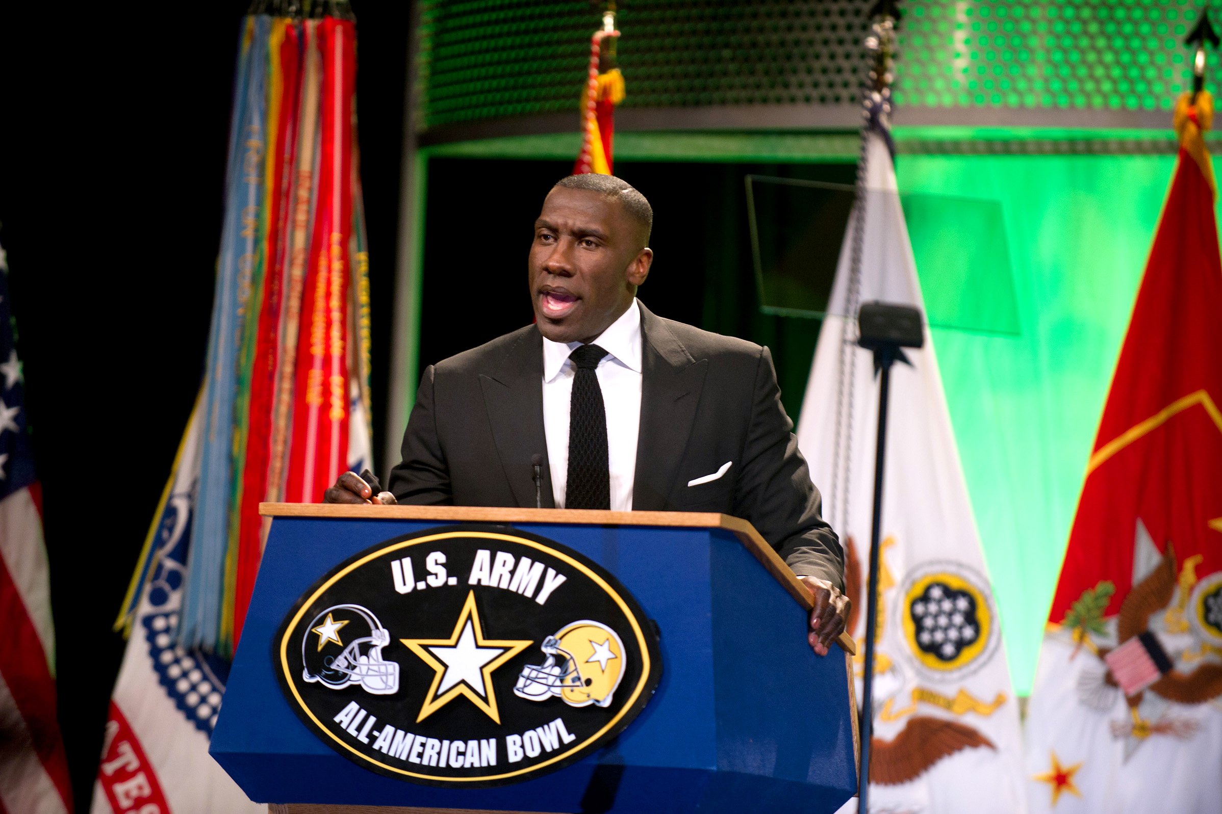 Pro Football Hall of Famer Shannon Sharpe delivers the keynote speech during the Army All-American Bowl Awards Dinner in San Antonio, Jan. 6, 2012. U.S. Army photo by Staff Sgt. Teddy Wade